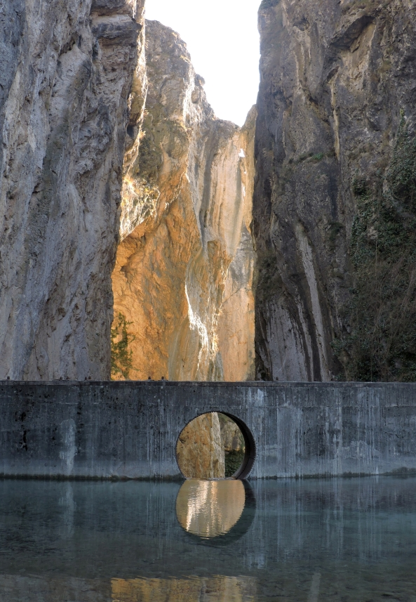 Orrido di Chianocco (Piedmont, Italy)